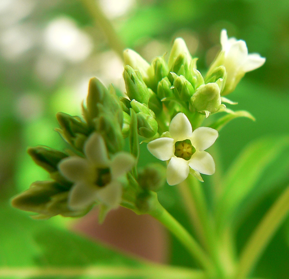 Apocynum cannabinum in upper north fork of Pine Creek Canyon, Red Rock Canyon, Spring Mountains, southern Nevada (elev. about 1500 m)